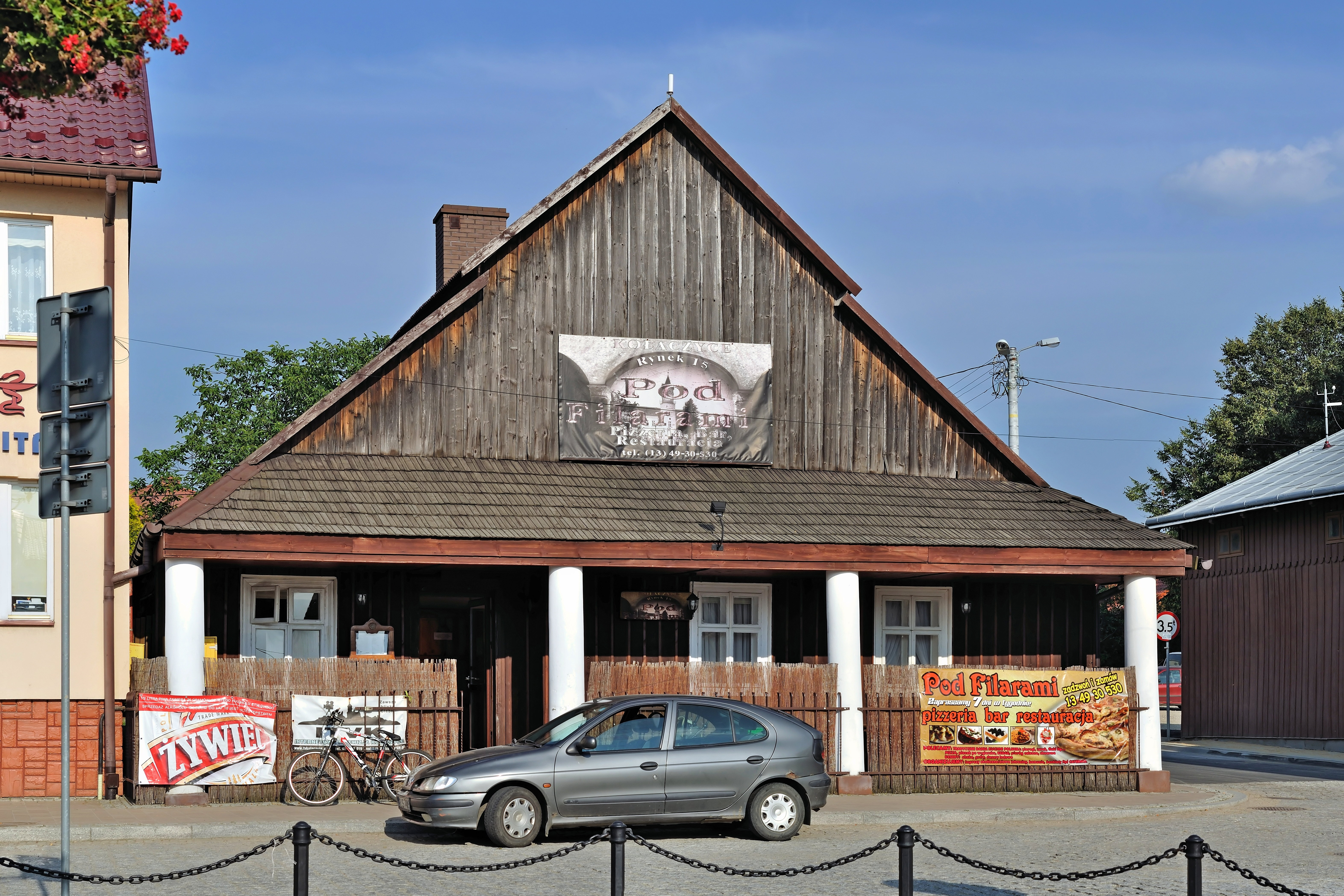 Wooden house in Kołaczyce, Poland